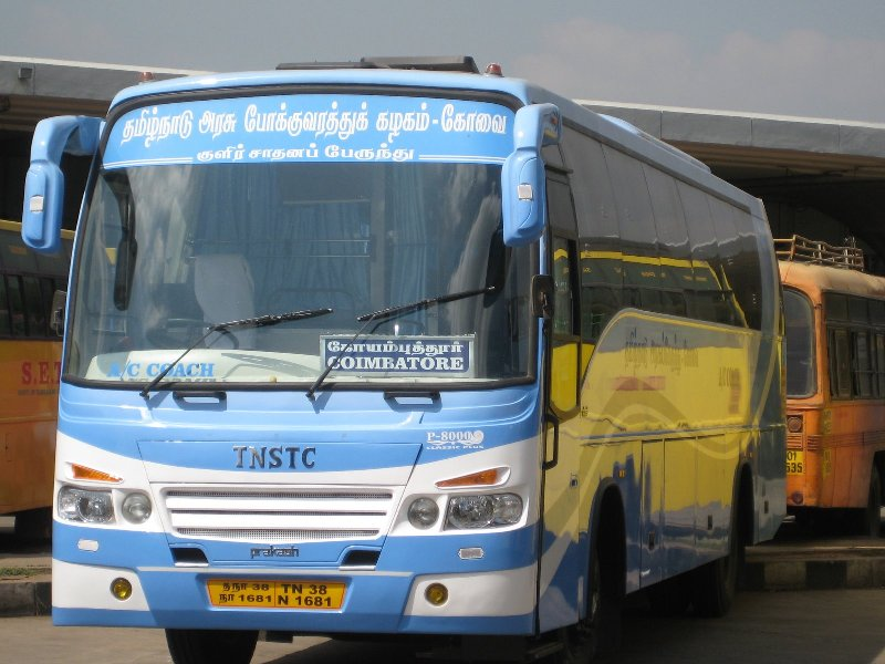 A bus in the Tamil Nadu State Transport Corporation fleet, in the TNSTC colours. This model is a "Proton Series" bus made by Prakash Body Constructions.